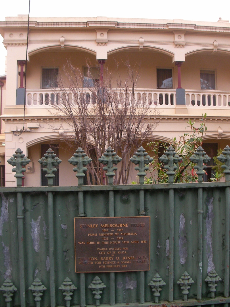 The house in which Stanley Melbourne Bruce was born on Grey Street, St Kilda, including the plaque which commemorates his birth